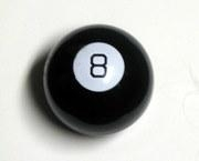 Picture of the face of a magic 8-ball taken by me on August 16, 2007.